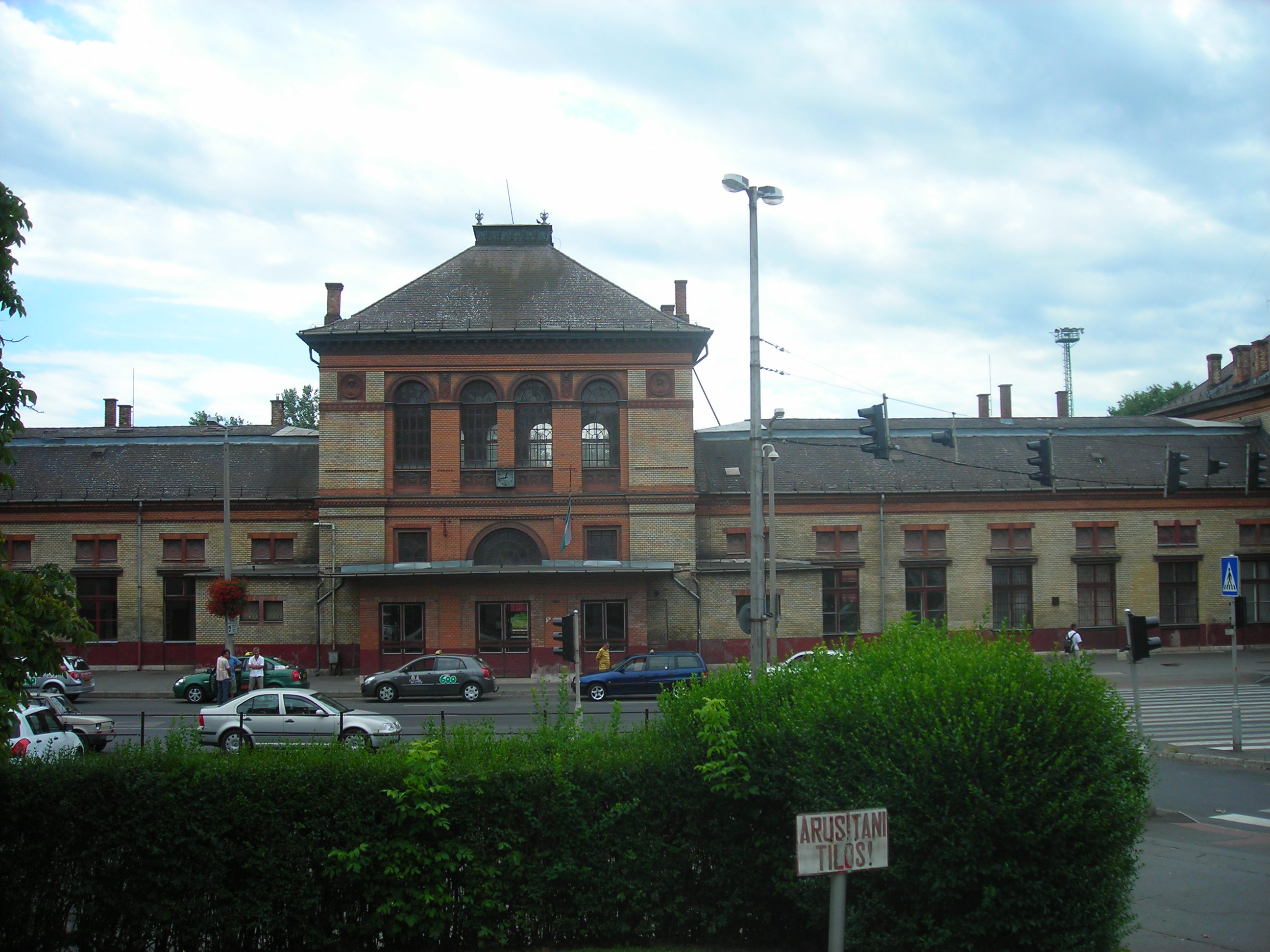 Kaposvár railway station